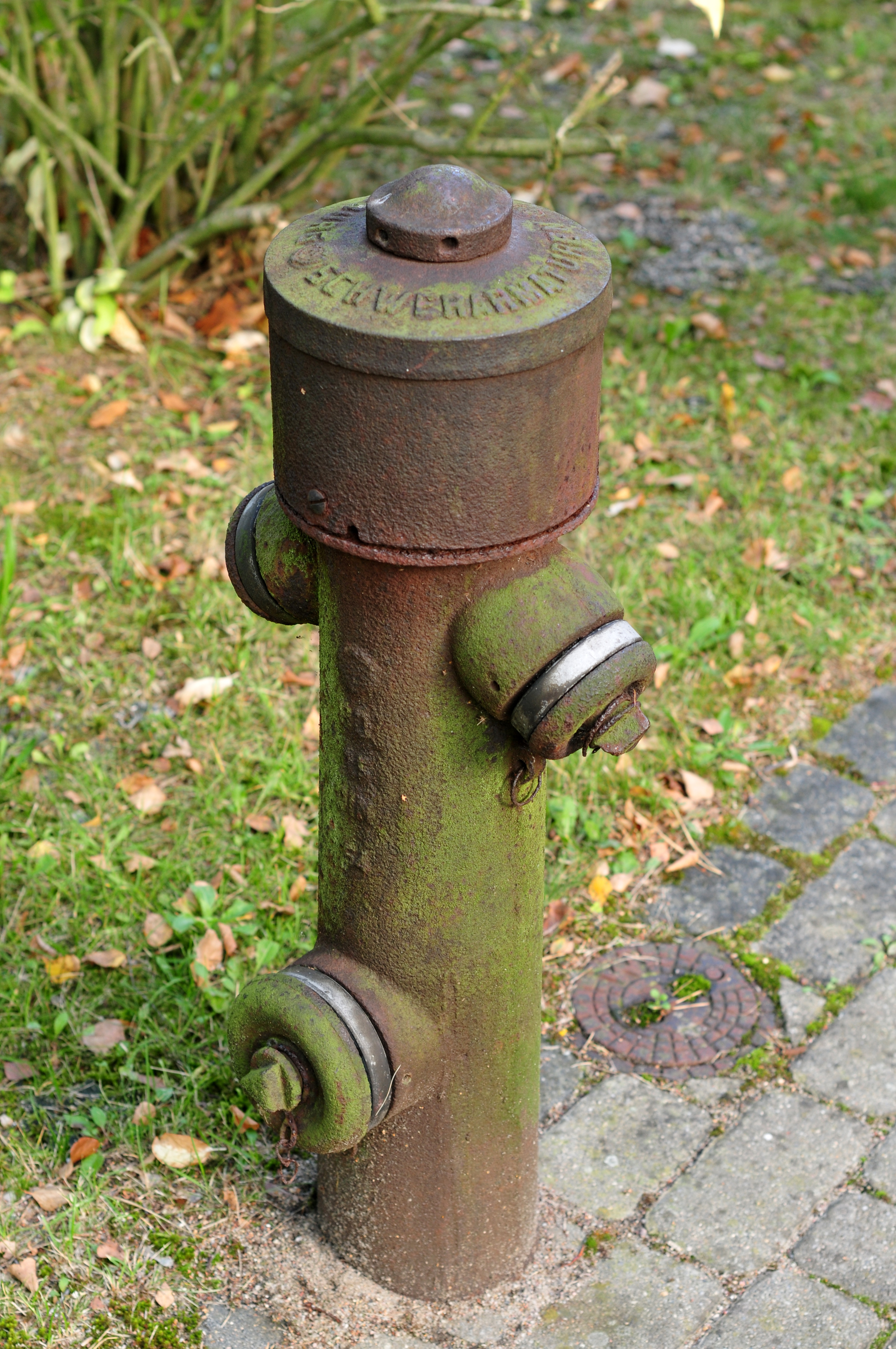 Fire hydrant in Eberswalde